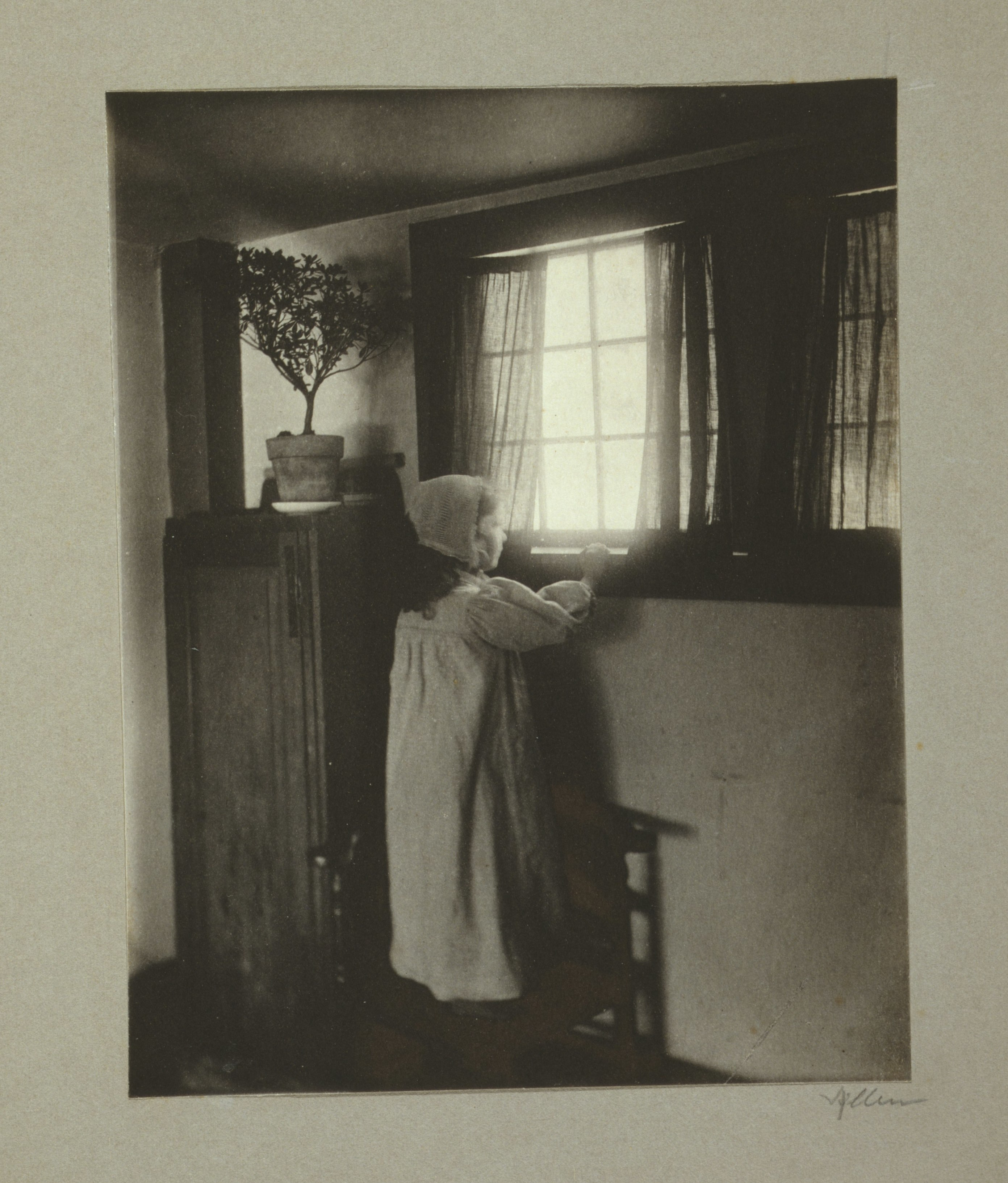 Title: Good morning! / Allen. Abstract/medium: 1 photographic print : platinum ; 19.9 x 15.6 cm. mounted on gray board, 27.9 x 22.6 cm.